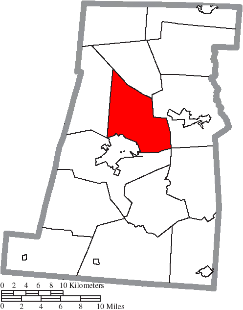 Map of the municipal and township boundaries of Madison County, Ohio, United States, as of the 2000 census, with the location of Deer Creek Township highlighted. Township borders are shown only in unincorporated areas in order to differentiate incorporated and unincorporated areas more clearly.